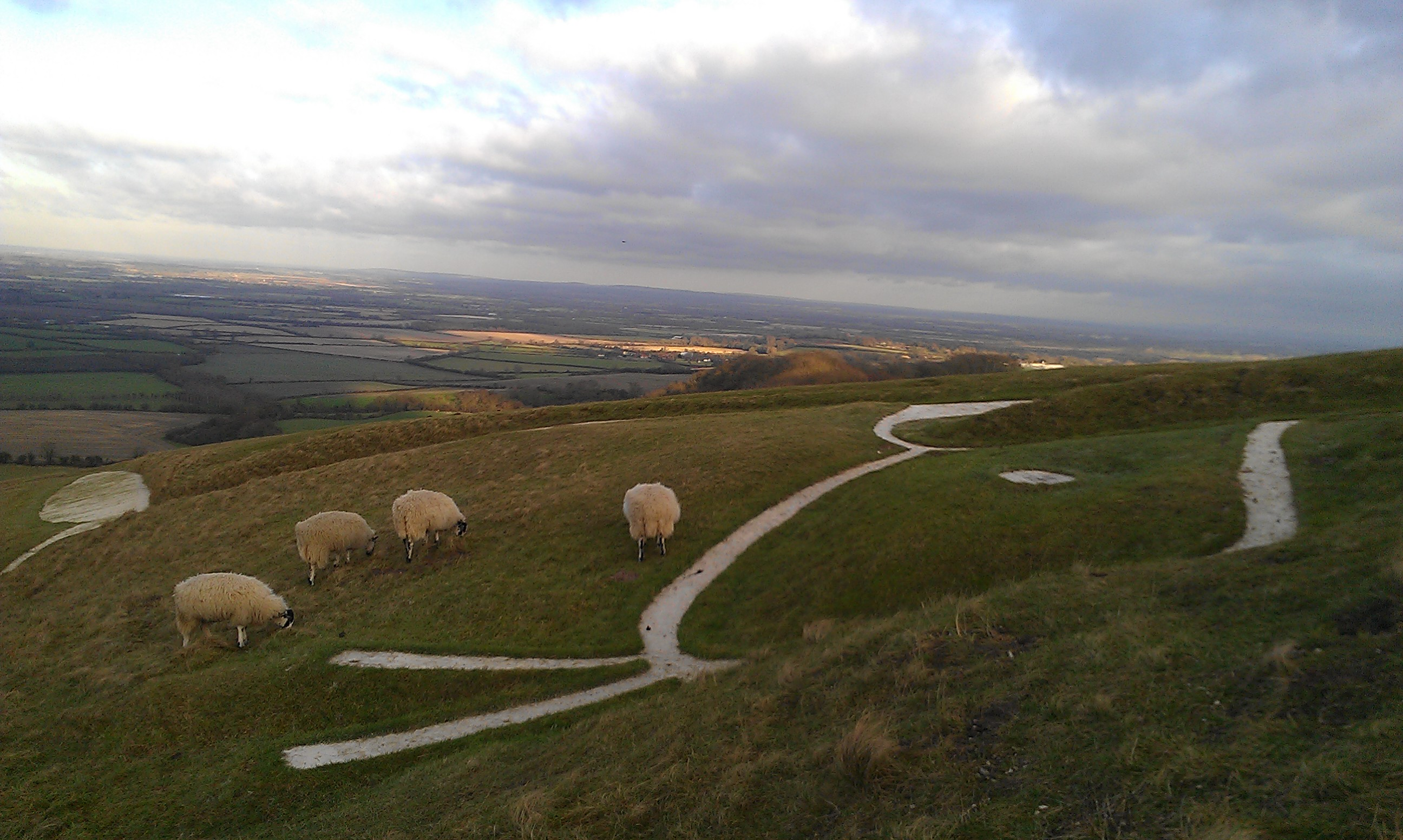 The head of the White Horse of Uffington, a chalk geoglyph in Oxfordshire, England.